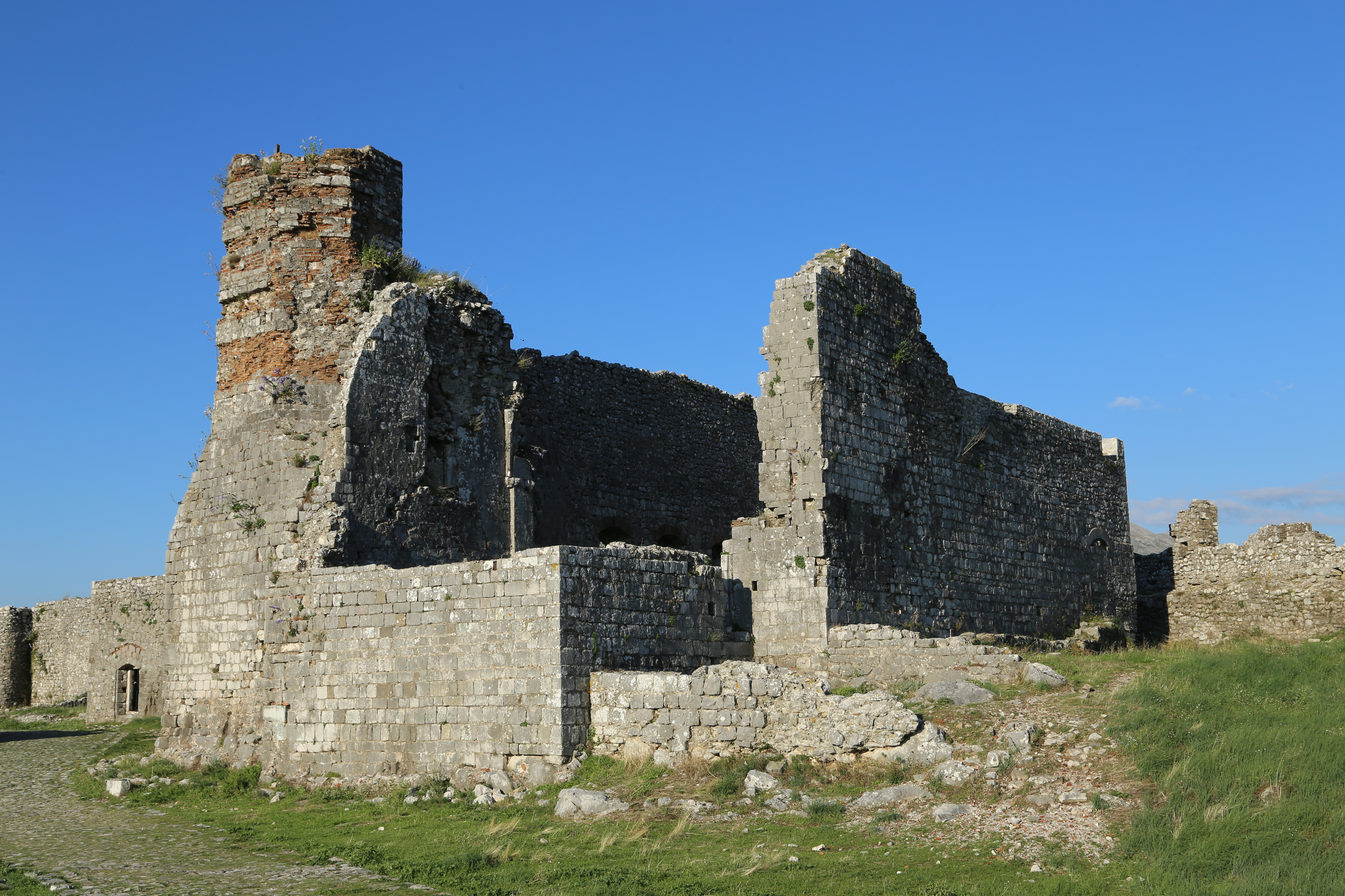 Rozafa Castle in Albania